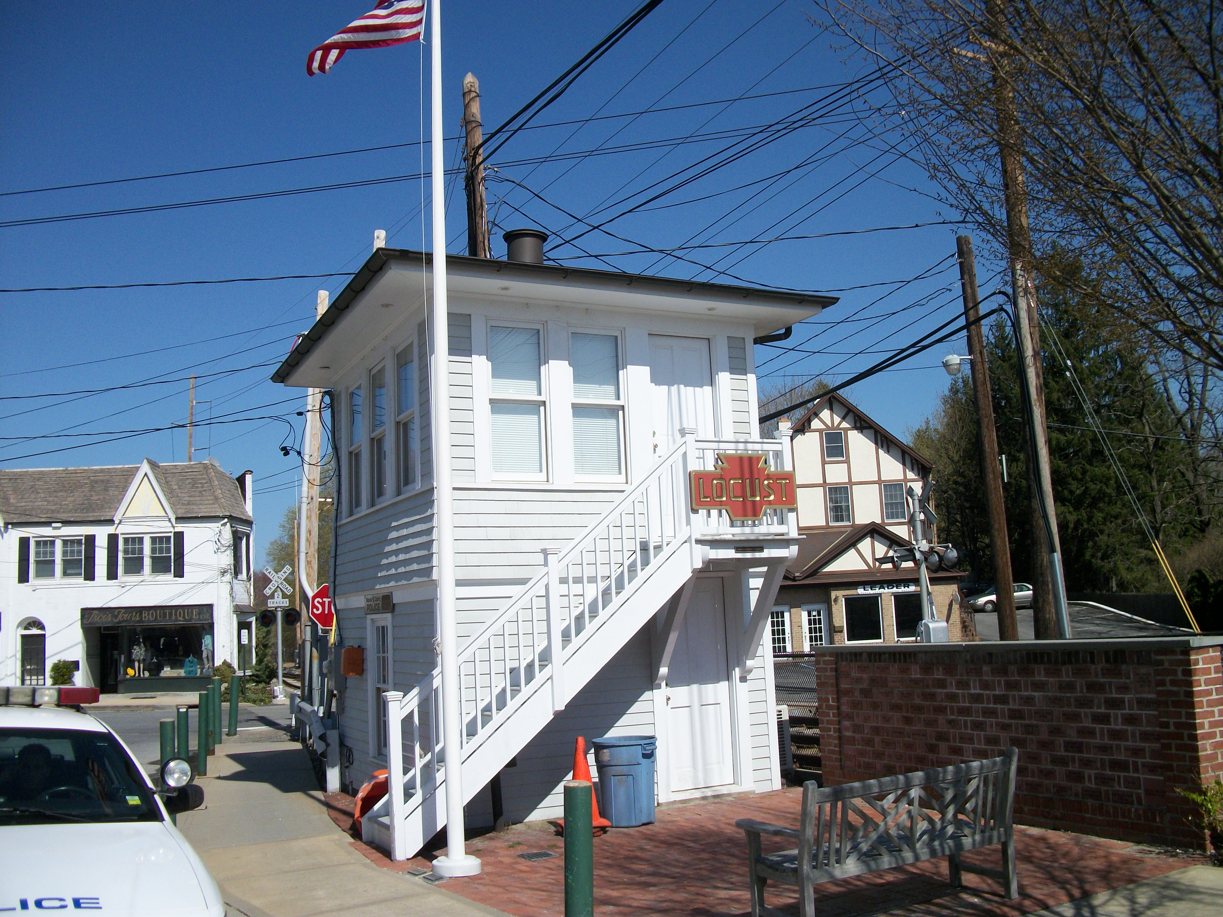 The former Locust Tower at Locust Valley (LIRR station), in Locust Valley, New York, now a Nassau County Police Department sub-station.